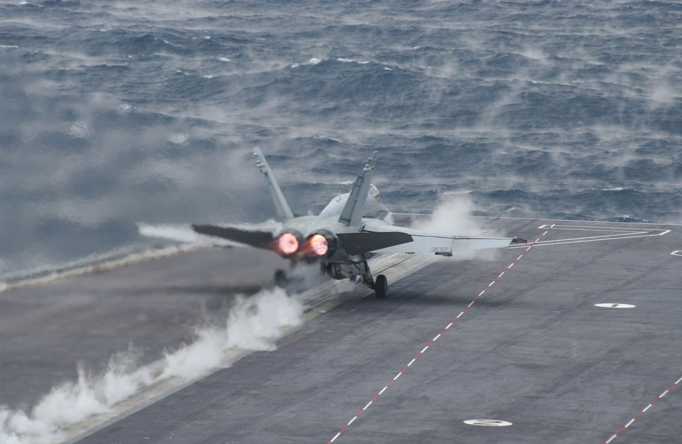 Atlantic Ocean (Feb. 25, 2004) – An F/A-18C Hornet assigned to the “Golden Warriors” of Strike Fighter Squadron Eight Seven (VFA-87) completes a catapult launch from flight deck aboard USS Harry S. Truman (CVN 75). The nuclear powered aircraft carrier Harry S. Truman is undergoing carrier qualifications and flight deck certification off the Atlantic coast. U.S. Navy photo by Photographer's Mate Airman Craig R. Spiering. (RELEASED)